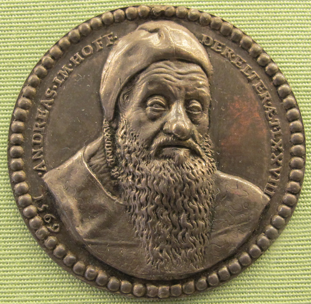 Andreas Imhof, 1569